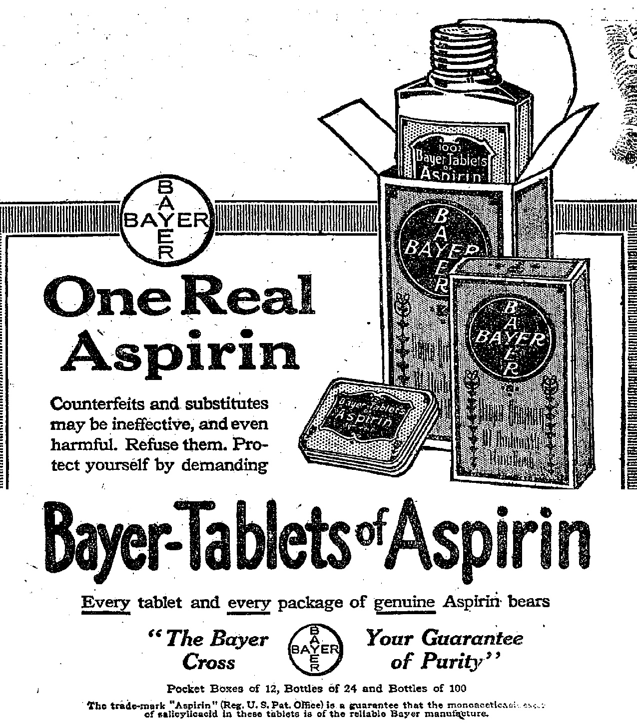 One of the first advertisements for Bayer Aspirin aimed at American consumers, just before the U.S. patent for aspirin was to expire.